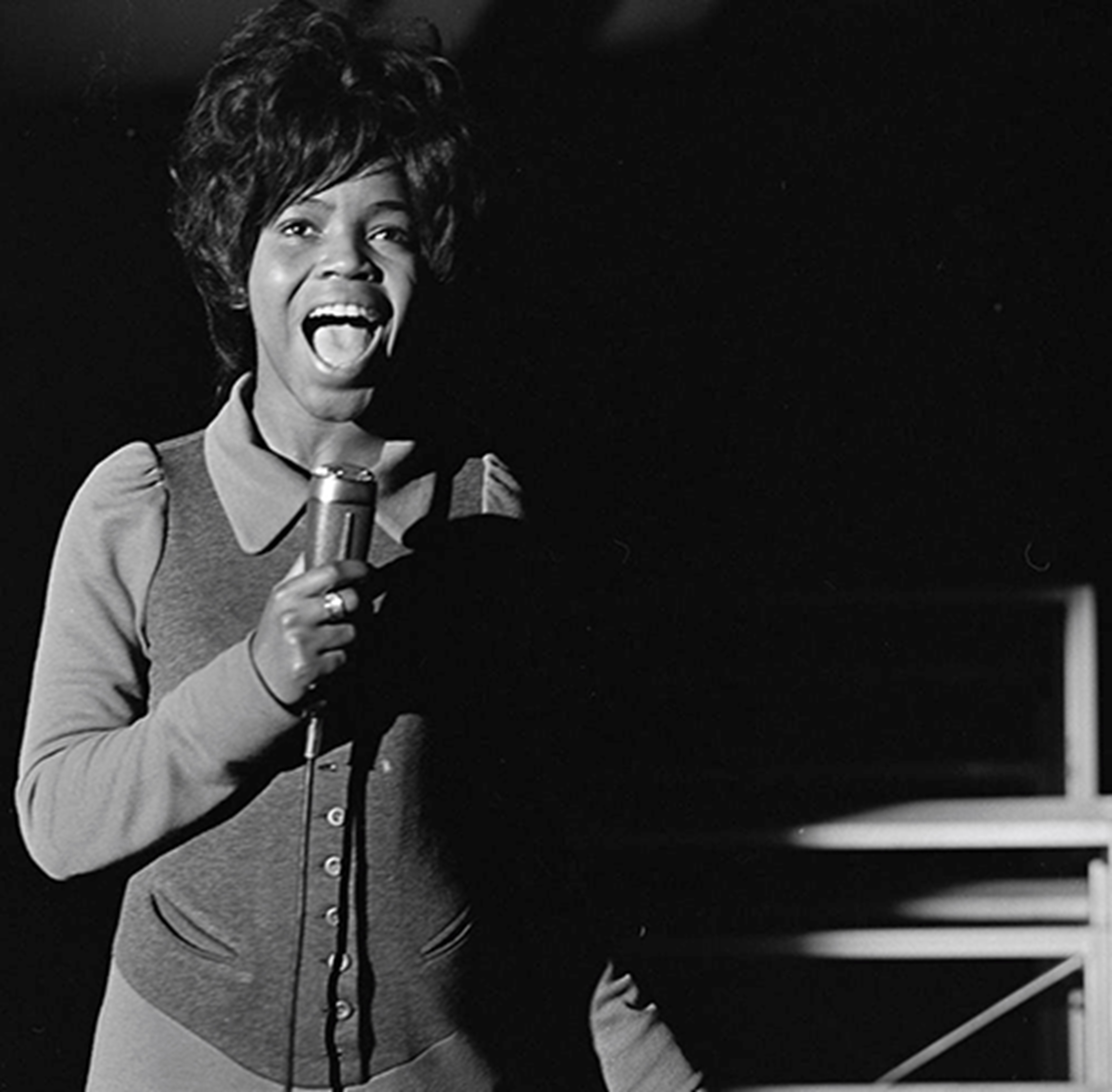 P. P. Arnold. Dutch TV programme Fenklup, 9 February 1968